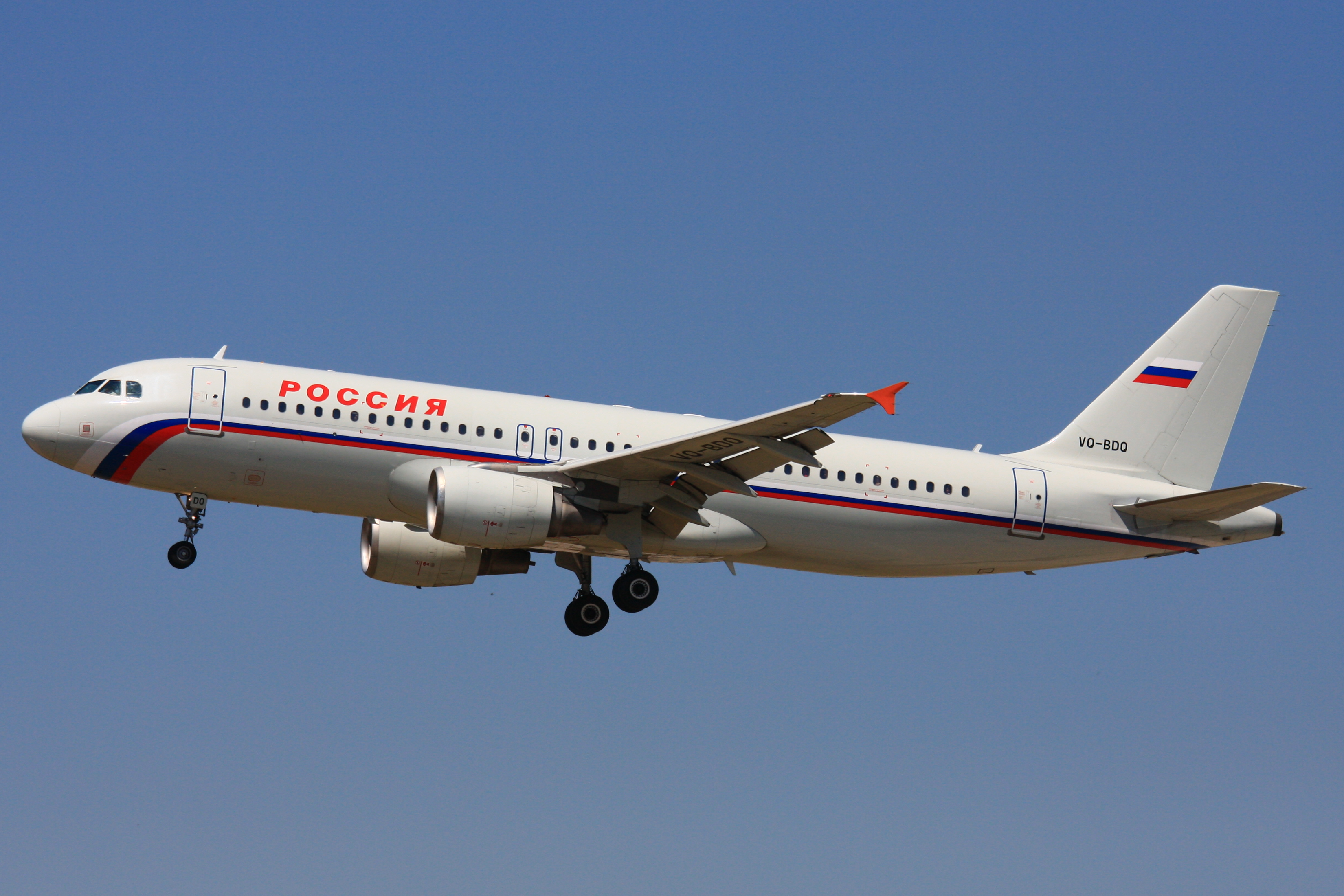 An Airbus A321 of Rossiya landing at Frankfurt Airport